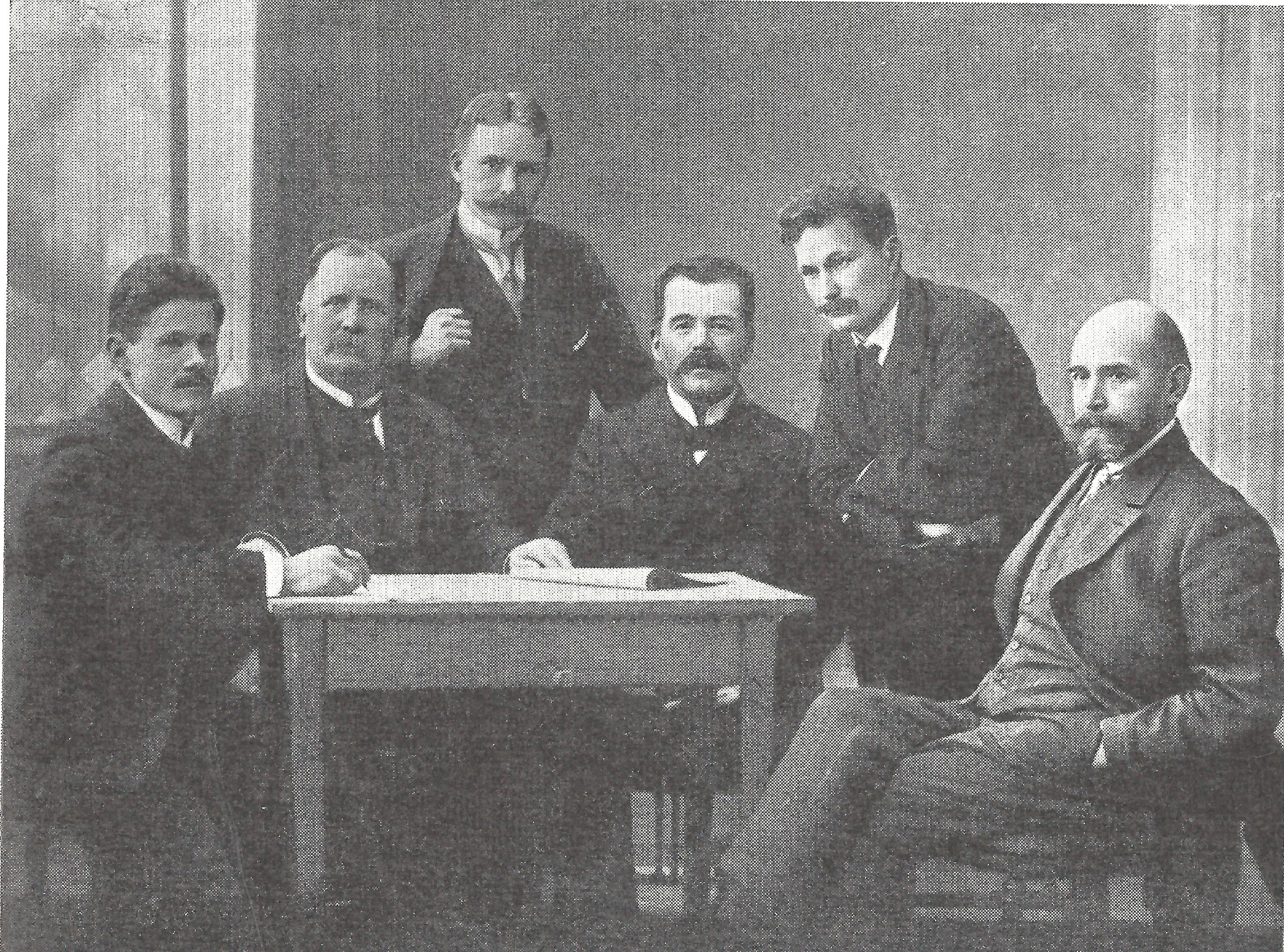 SVUL 1906 - work council (in Finnish "SVUL:n toimitusvaliokunta") in 1906 . From left: Juho Tamminen, Ivar Wilskman, Arvo Vartia, Gösta Vasenius, Aksel Ek, Kaarle Majantie